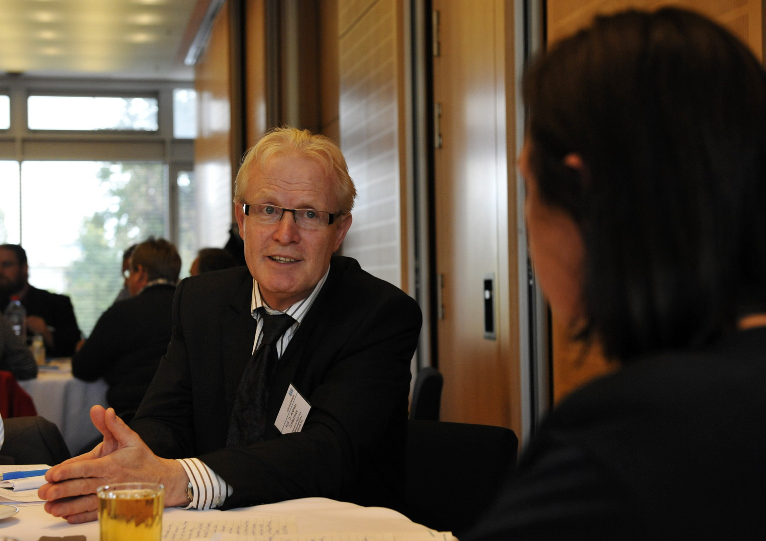 Picture of Andreas J. W. Goldschmidt, full professor at the University of Trier, at a public conference of the German federal ministry of research and education in Ingelheim on the Rhein at Oct 8th 2011, where questions of the technological and social future of health care and high-tech medicine were discussed.